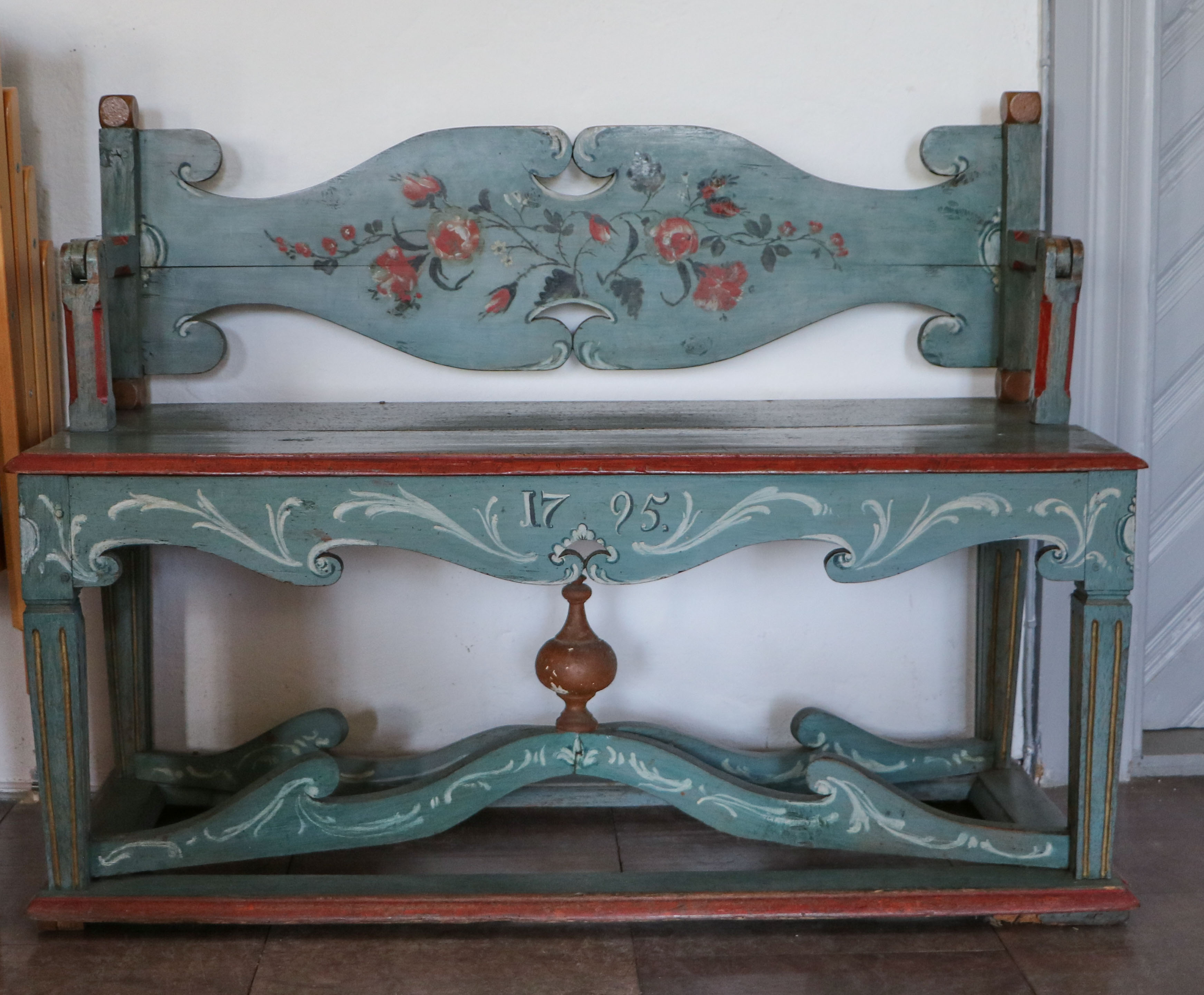 Norra Möckleby Church.Bridal bench painted 1795 by Johan Henrik Wadsten.